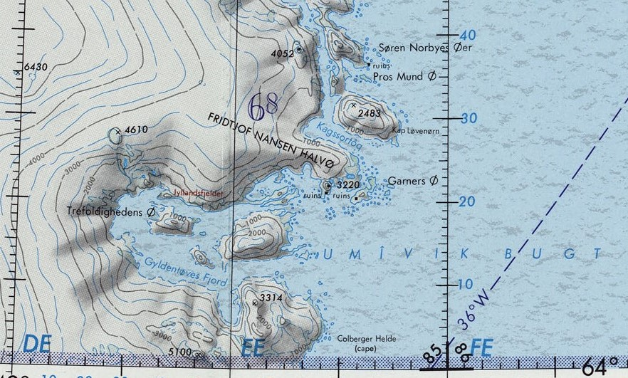 Umivik Bay (Danish: Umivik Bugt). Section of 1:1,000,000 scale Operational Navigation Chart, Sheet C-13, 3rd edition Greenland map.